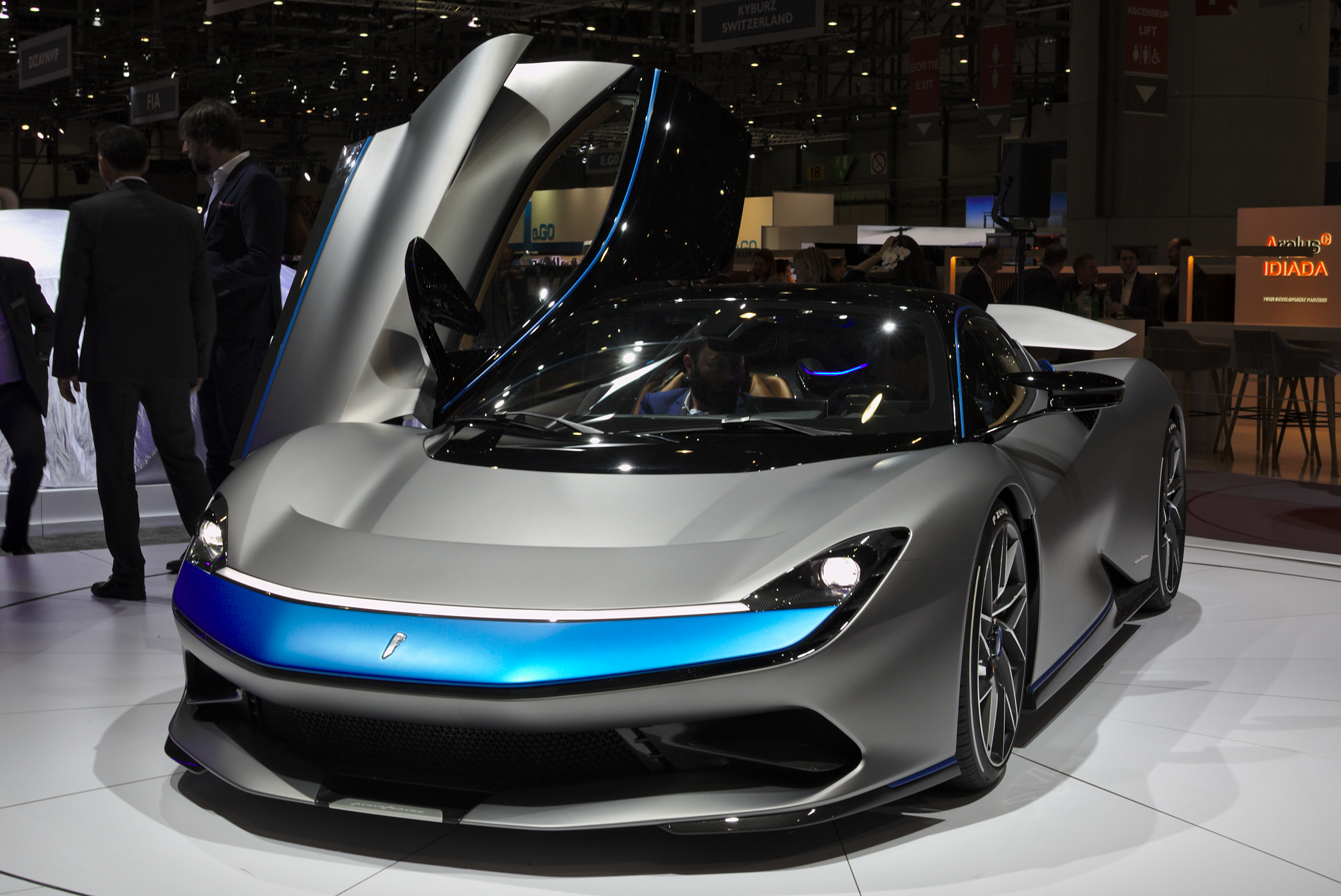 Pininfarina Battista at Geneva Motor Show 2019